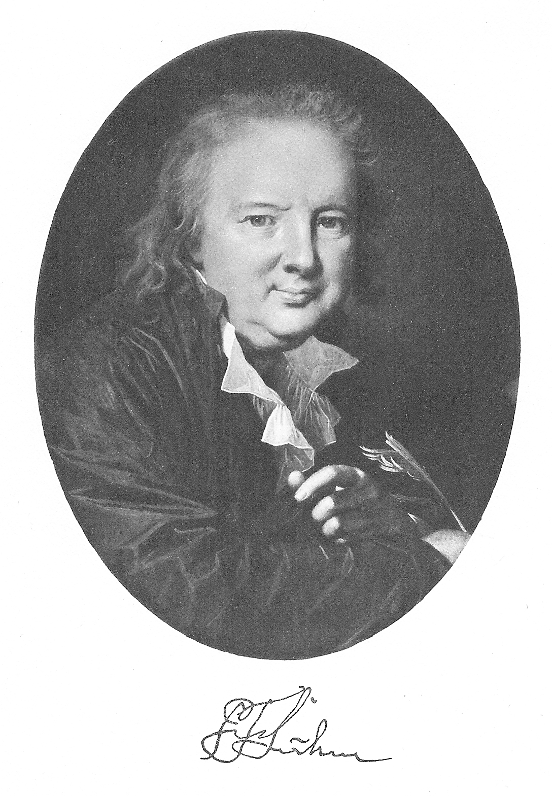 Peter Frederik Suhm painted by Jens Juel.